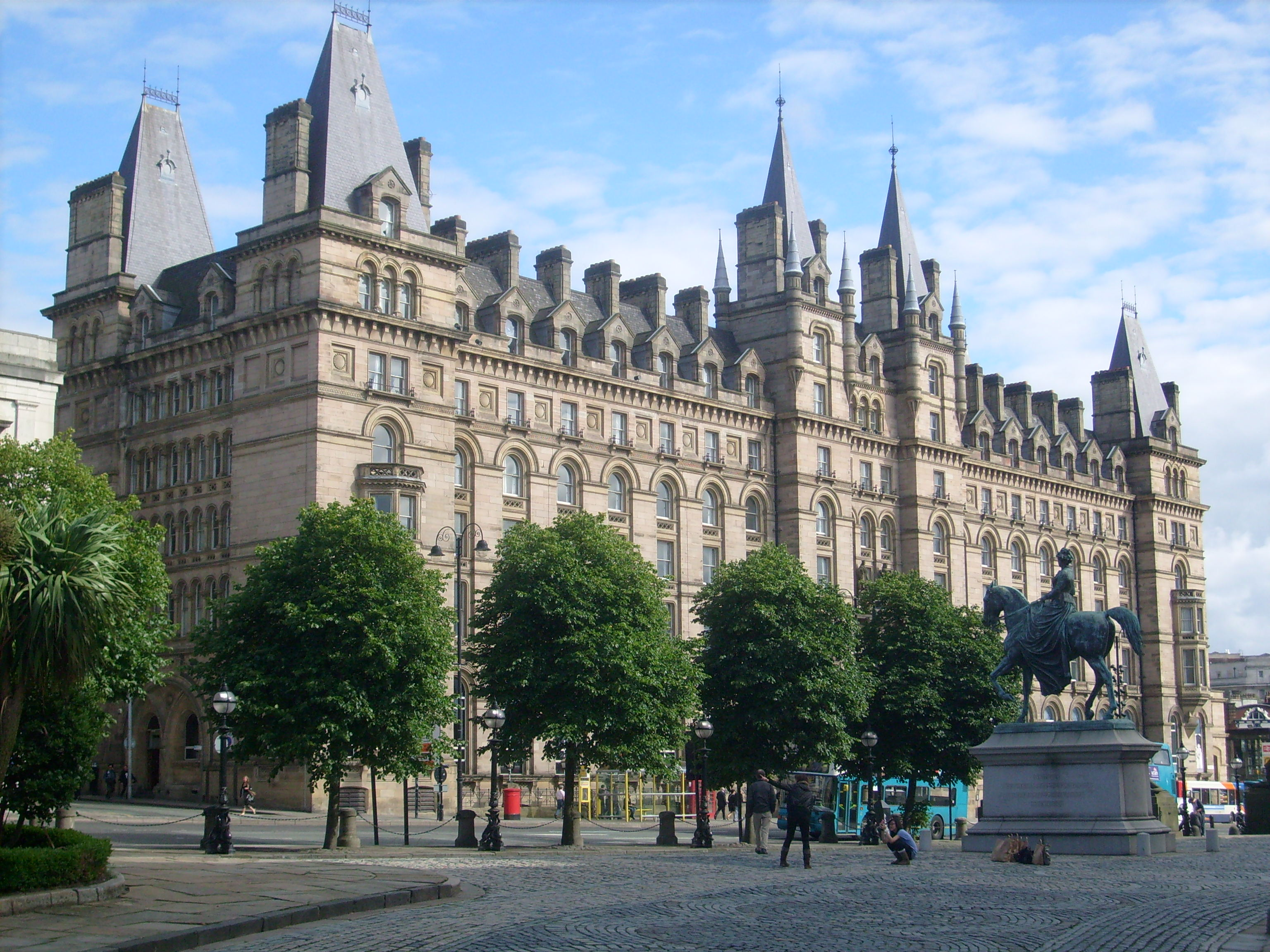 North Western Hotel at Liverpool Lime Street Railway station. Now Halls of Residence for Liverpool John Moores.